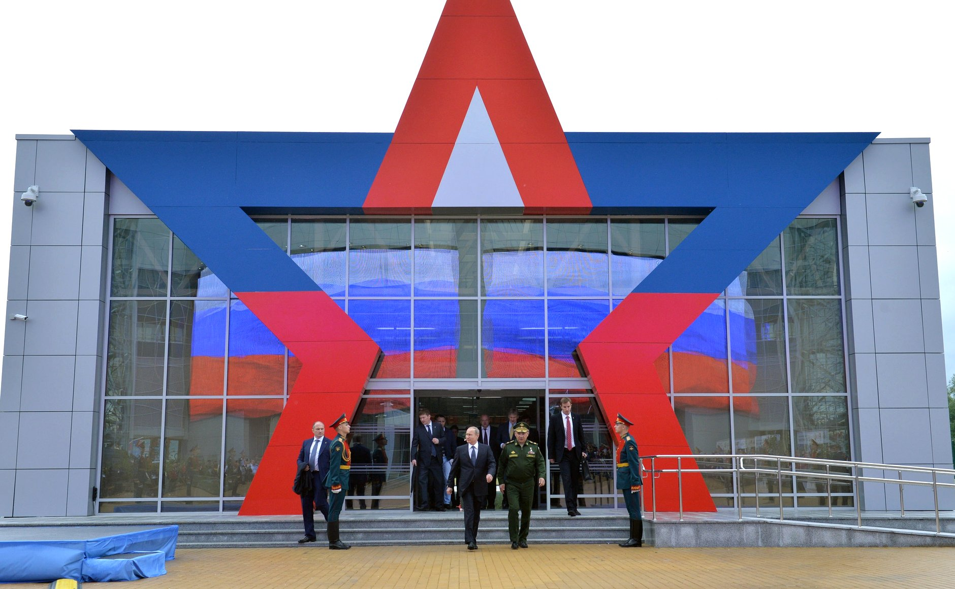 Vladimir Putin at the opening ceremony of international military-technical forum «Army-2015»